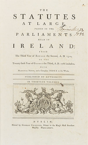 The cover page from The Statutes at Large passed in the Parliaments held in Ireland from the Third Year of Edward the Second, A.D. 1310 to the Twentyfifth Year of George the Third, A.D. 1786 inclusive